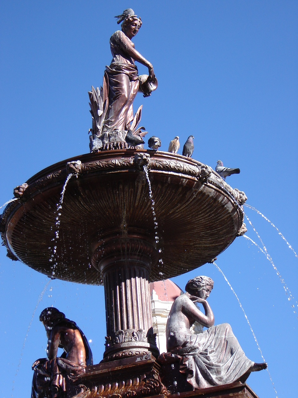 The Plaza de Armas fountain in Saltillo, Mexico. Author